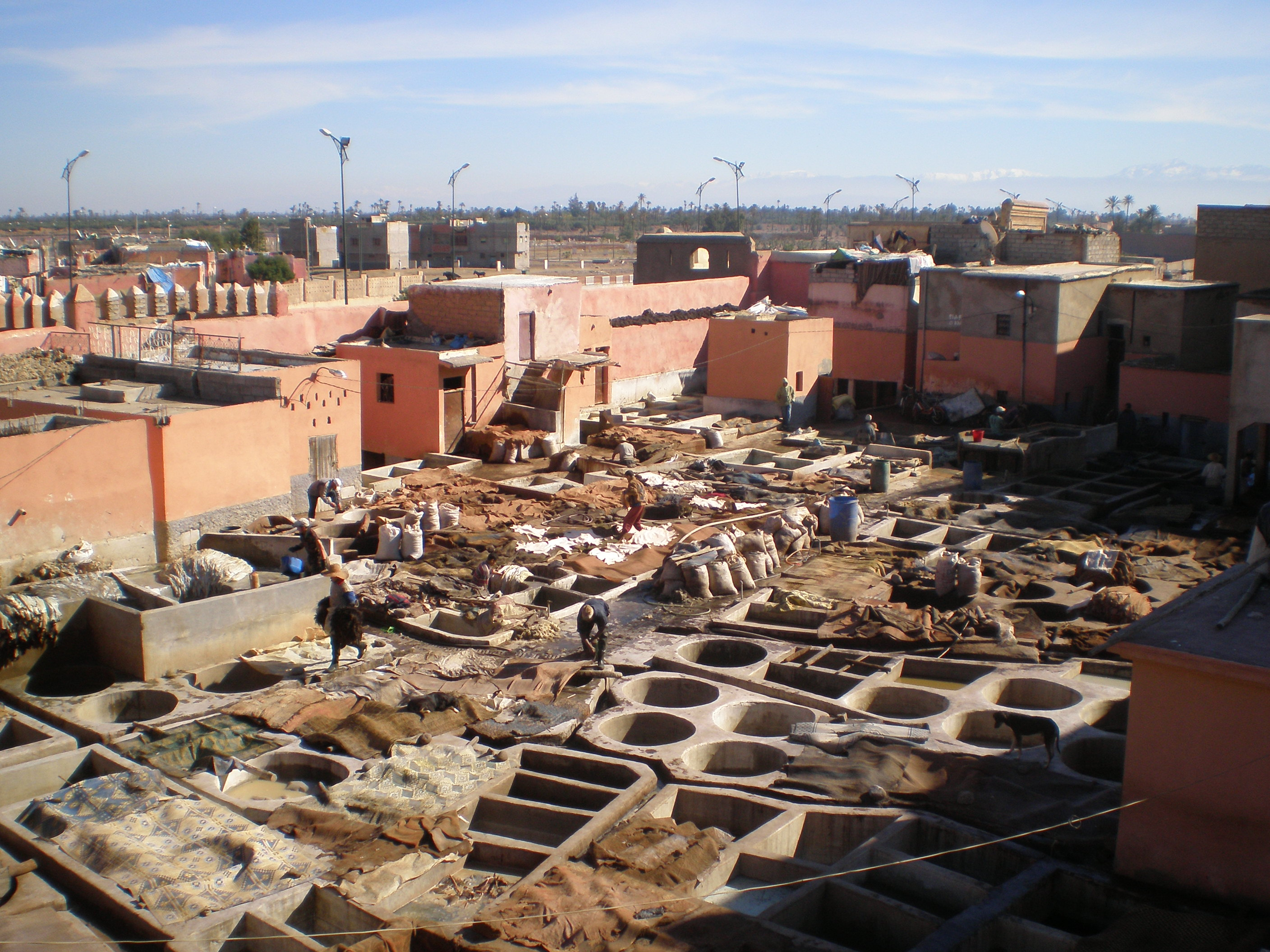 Tanneries. Marrakech, Morocco